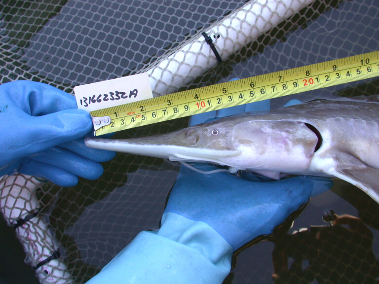 A Pallid sturgeon (Scaphirynchus albus) detail and measurement of head features